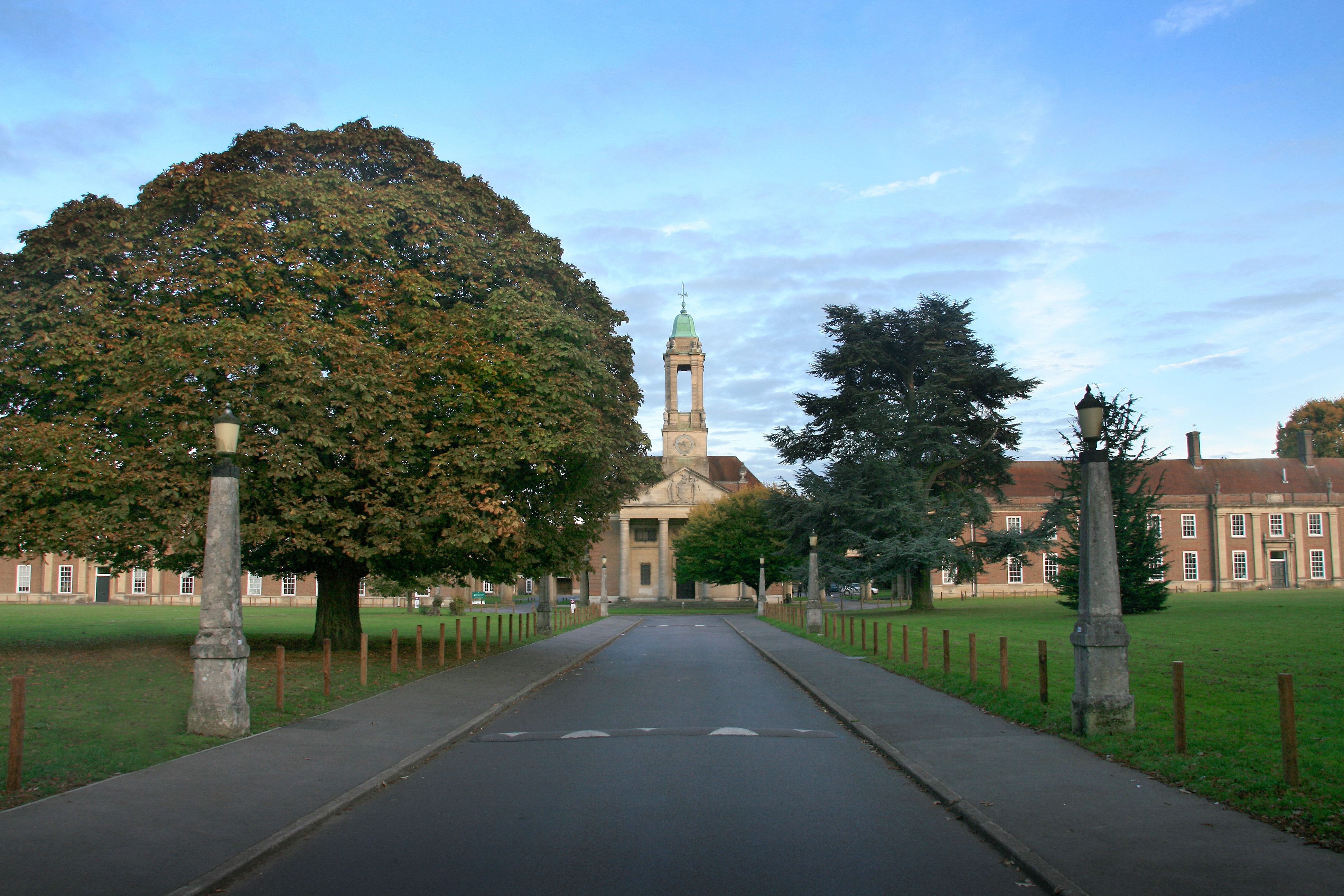 Ashlyns School Building Including The Chapel, Main Block And Classroom Wings Wikidata has entry Q26670119 with data related to this item.